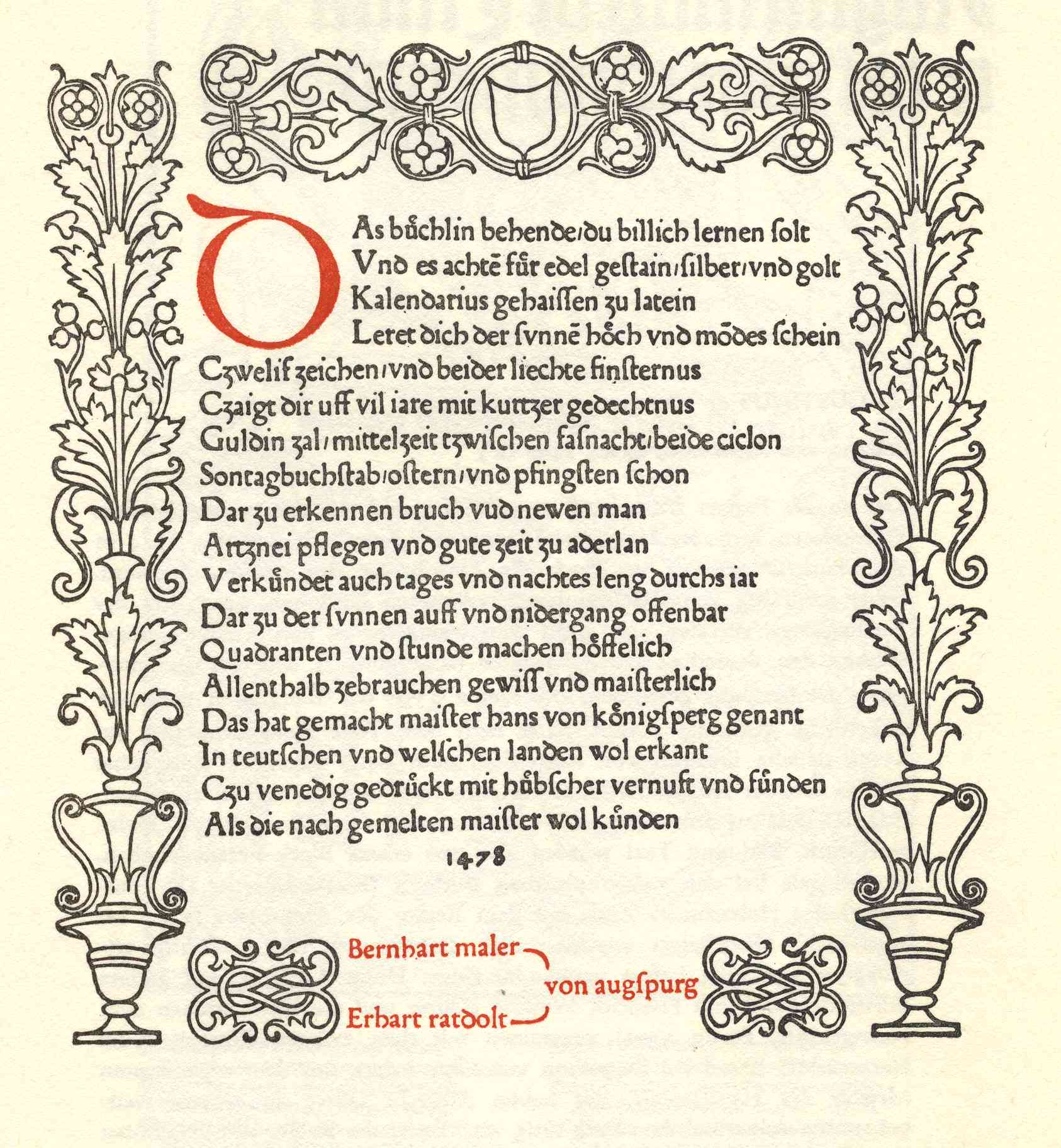 Calendarius by Regiomontanus, printed by Erhard Ratdolt, Venice 1478, title page with printers' names